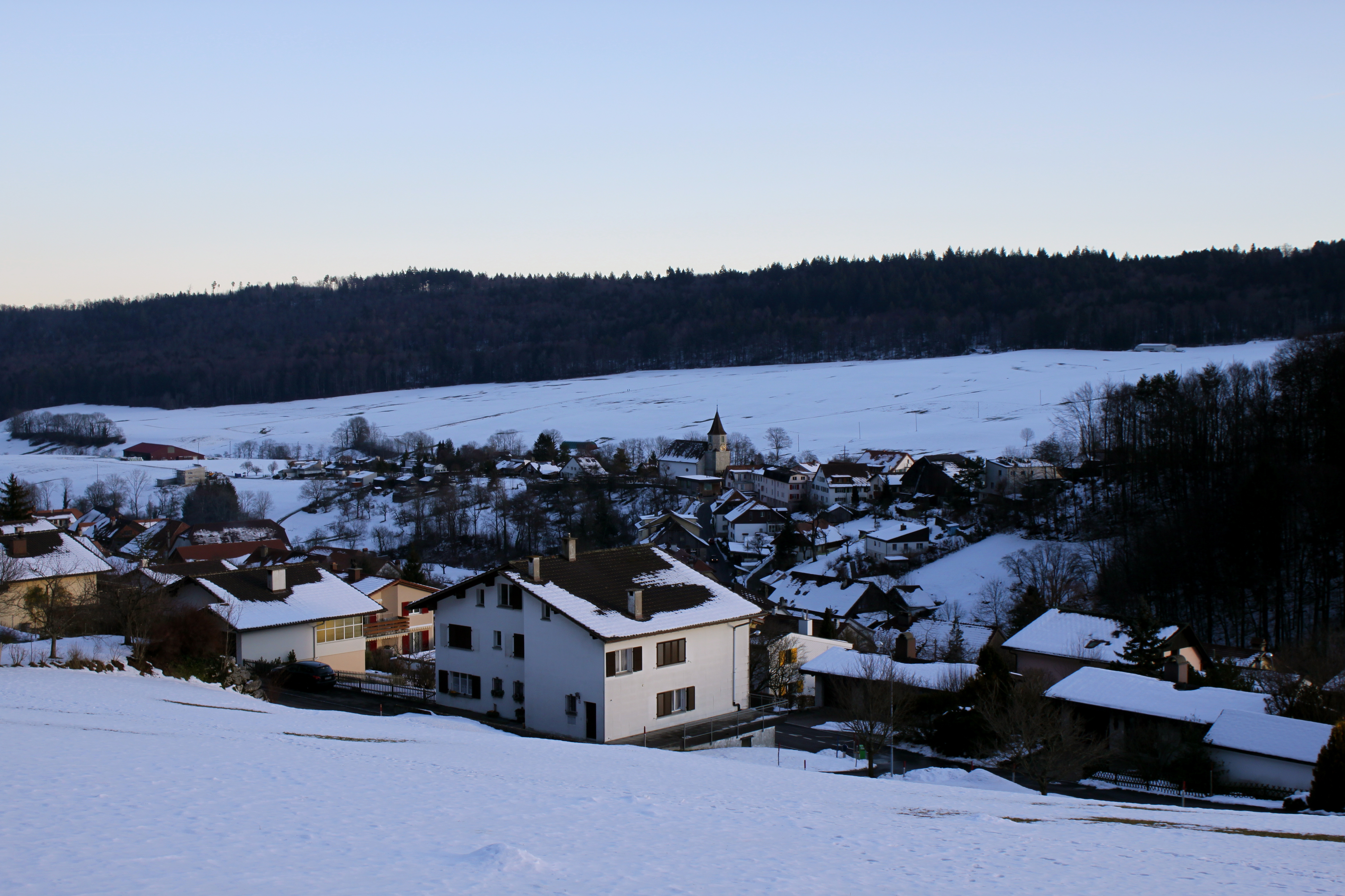 Orvin (Canton of Berne), Switzerland